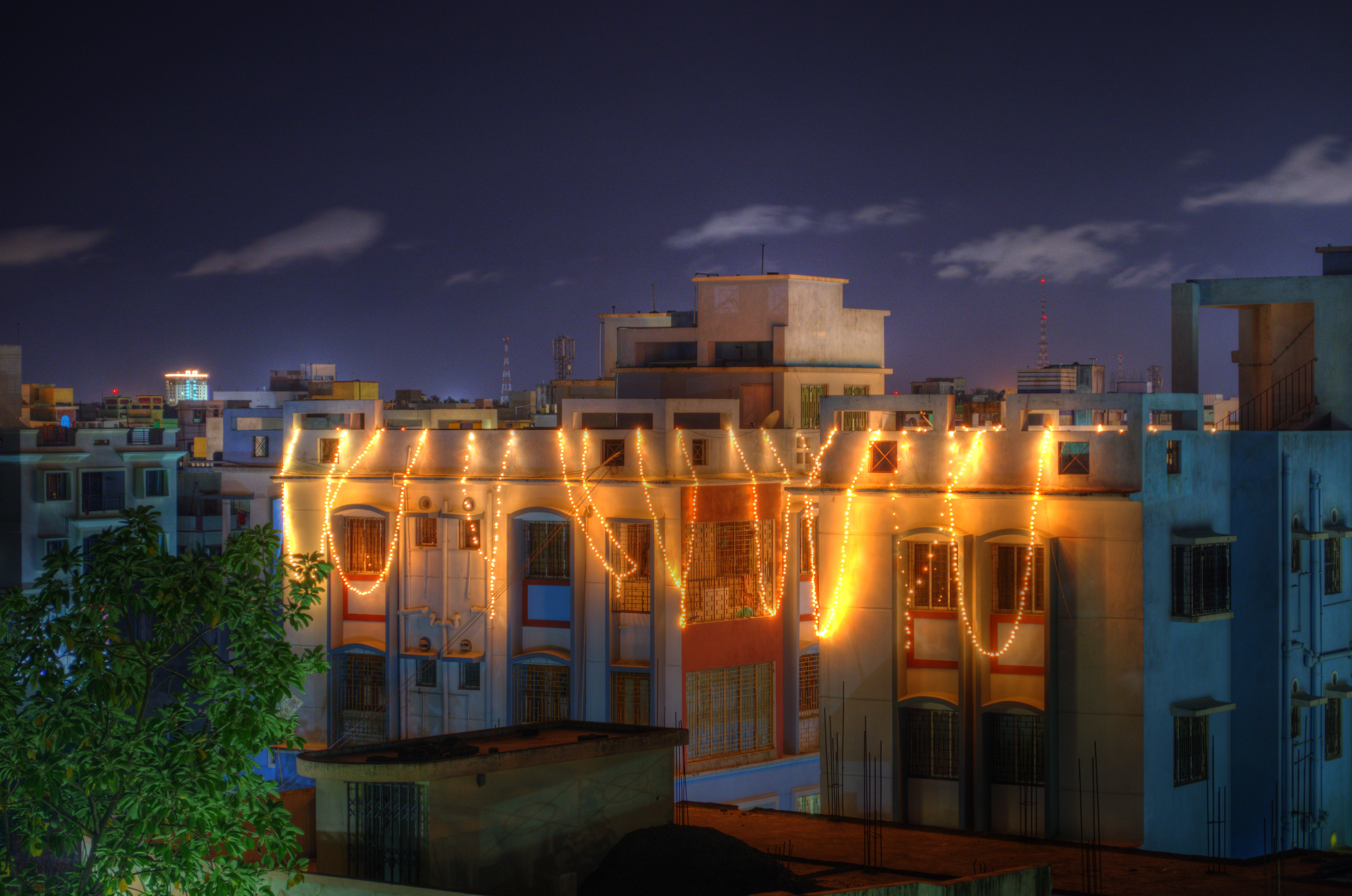 Homes get decorated with lights, some simple, some elaborate, some with traditional lamps on roofs and window sides.